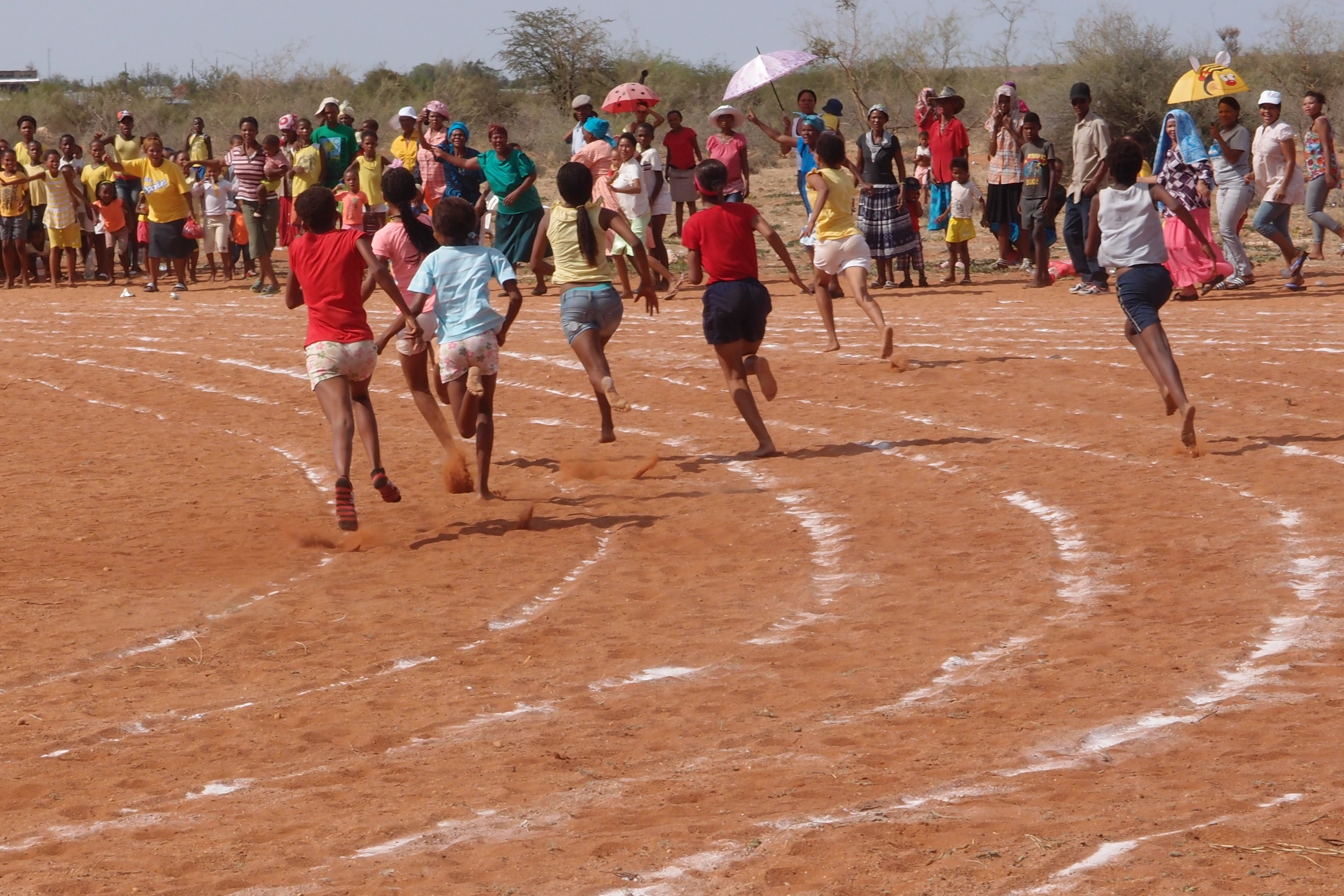 School athletics in Gochas, a small community in the south of Namibia. Watch the marked tracks on the sand and the whole village present as spectaters. This is an image with the theme "Play" from: Namibia